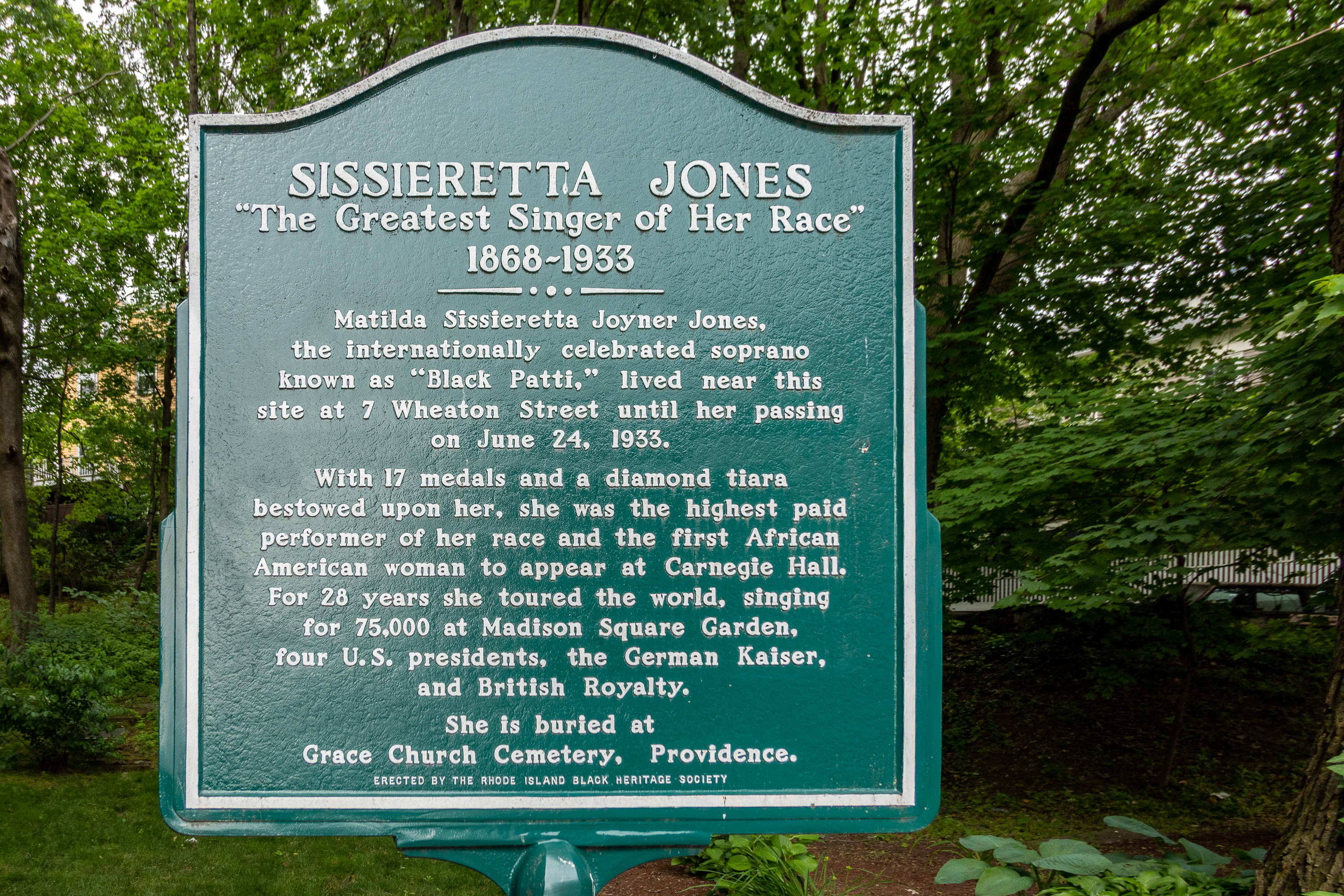 Matilda Sissieretta Joyner Jones, the internationally celebrated soprano known as "Black Patti," lived near this site at 7 Wheaton Street until her passing on June 24, 1933. With 17 medals and a diamond tiara bestowed upon her, she was the highest paid performer of her race and the first African American woman to appear at Carnegie Hall. For 28 years she toured the world, singing for 75,000 at Madison Square Garden, four U.S. Presidents, the German Kaiser, and British Royalty. She is buried at Grace Church Cemetery, Providence.